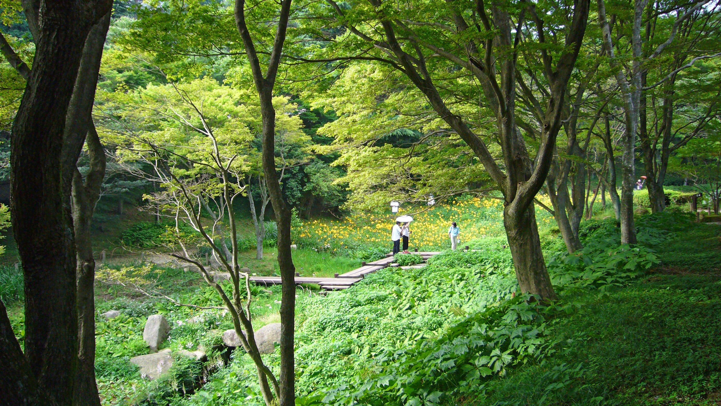 In the Rokko Alpine Botanical Garden, Kobe